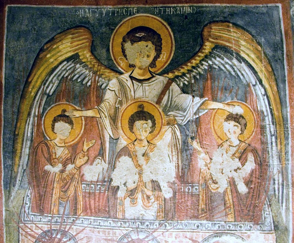 Fresco of archangel Michael protecting Hananiah, Mishael, and Azariah in fire. Dark church, Cappadocia.